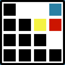 Logo of Cascade Framework